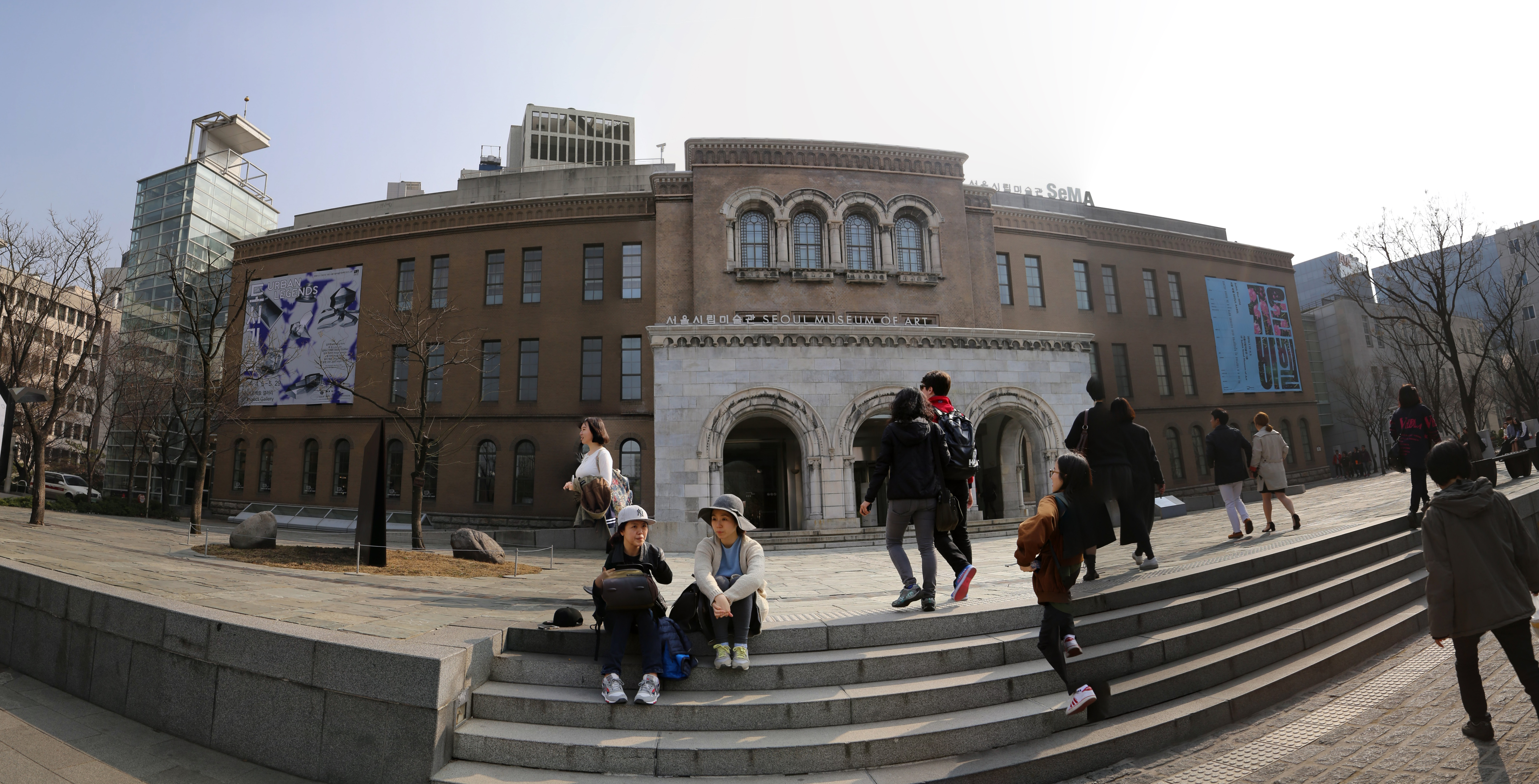 Seoul Museum of Art (SeMA) as photographed on 19 March 2016. Banners on the front of the building advertise the exhibitions "Urban Legends" (5 April – 5 May 2016) and "SeMA Blue 2016" (19 Jan – 4 May 2016). This file is a composite of 6 photographs.